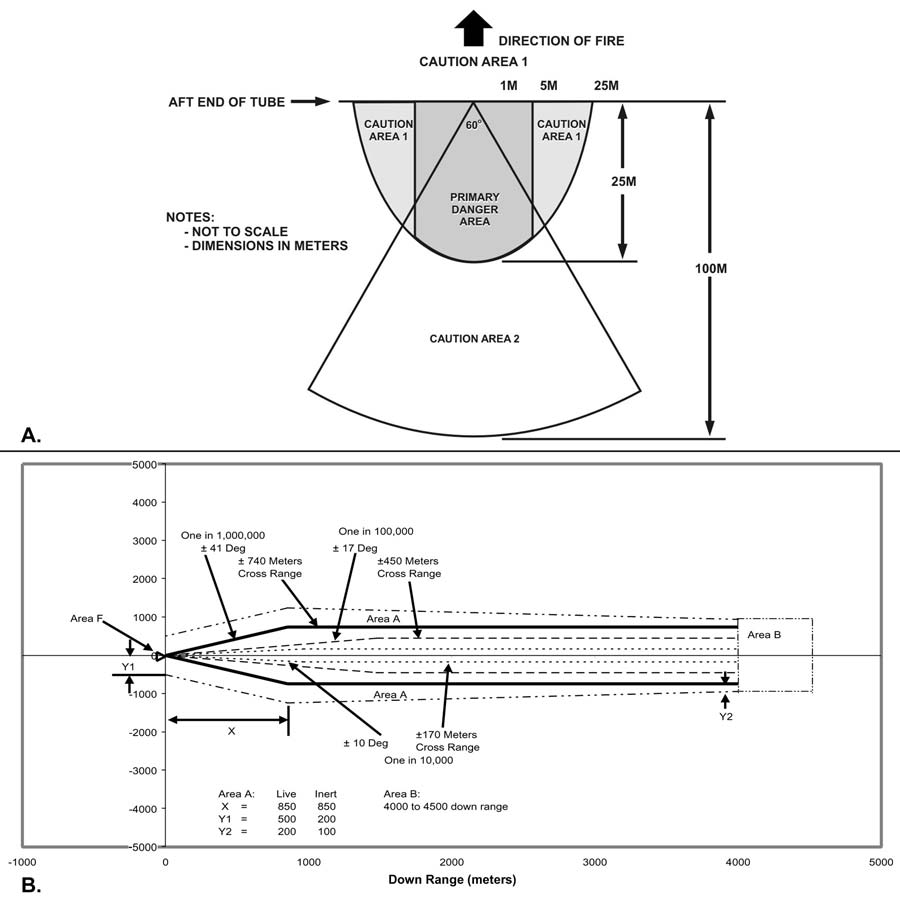 Backblast and surface danger zone